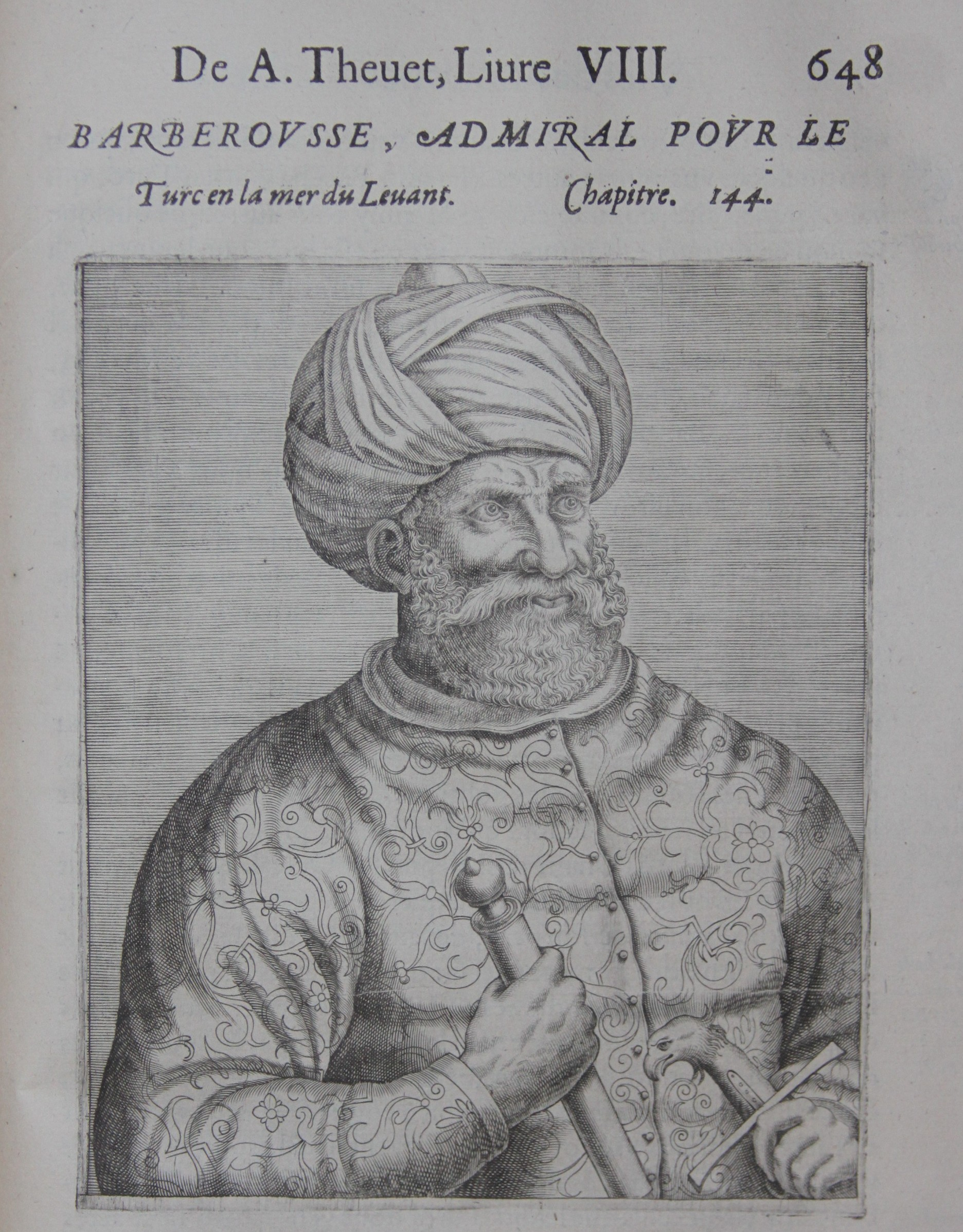 Barberousse, Pourtraits et Vies des Hommes Illustres, André Thévet, Paris 1584